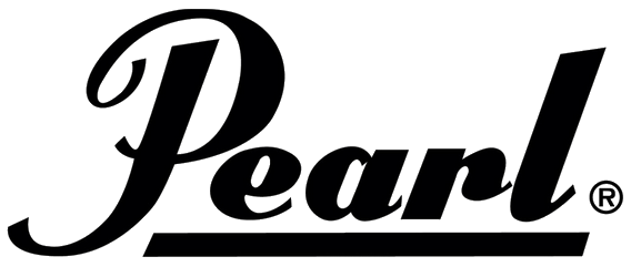 Logo of Japanese drums company Pearl.